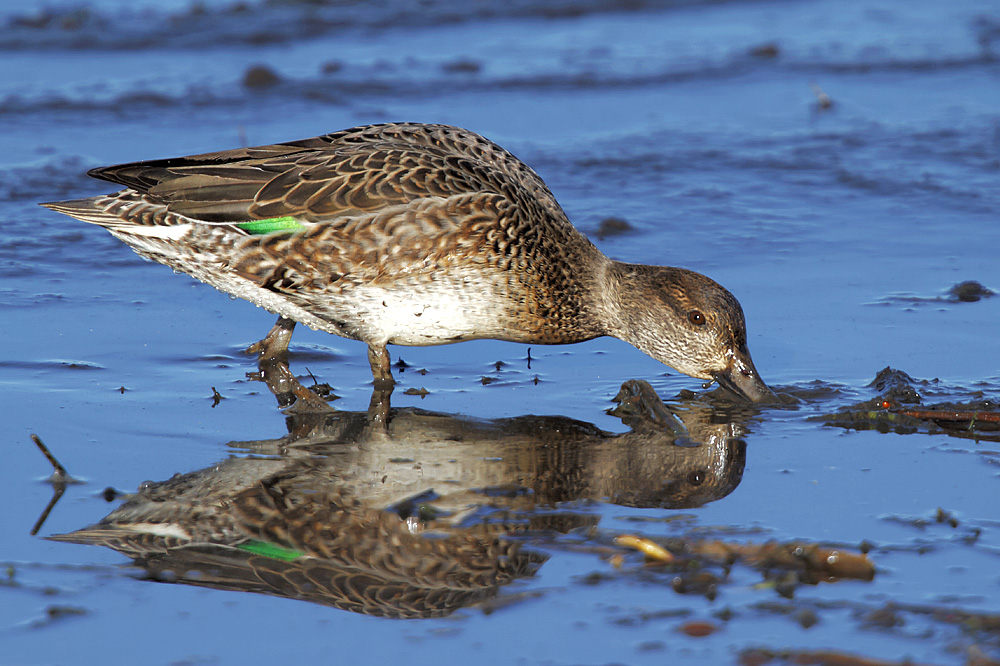 Eurasian teal, female